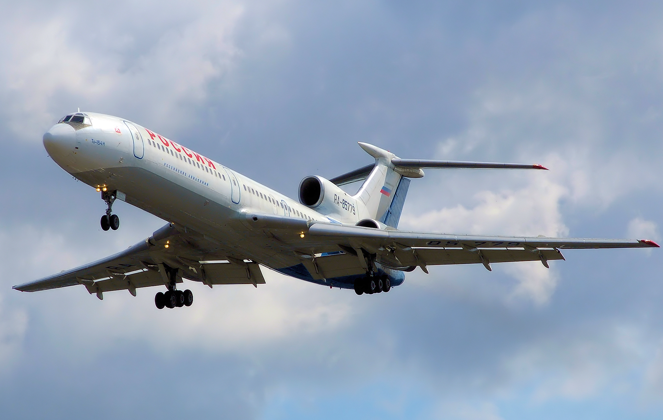 Rossiya - Russian Airlines Tu-154M (RA-85779) landing at London Heathrow Airport.